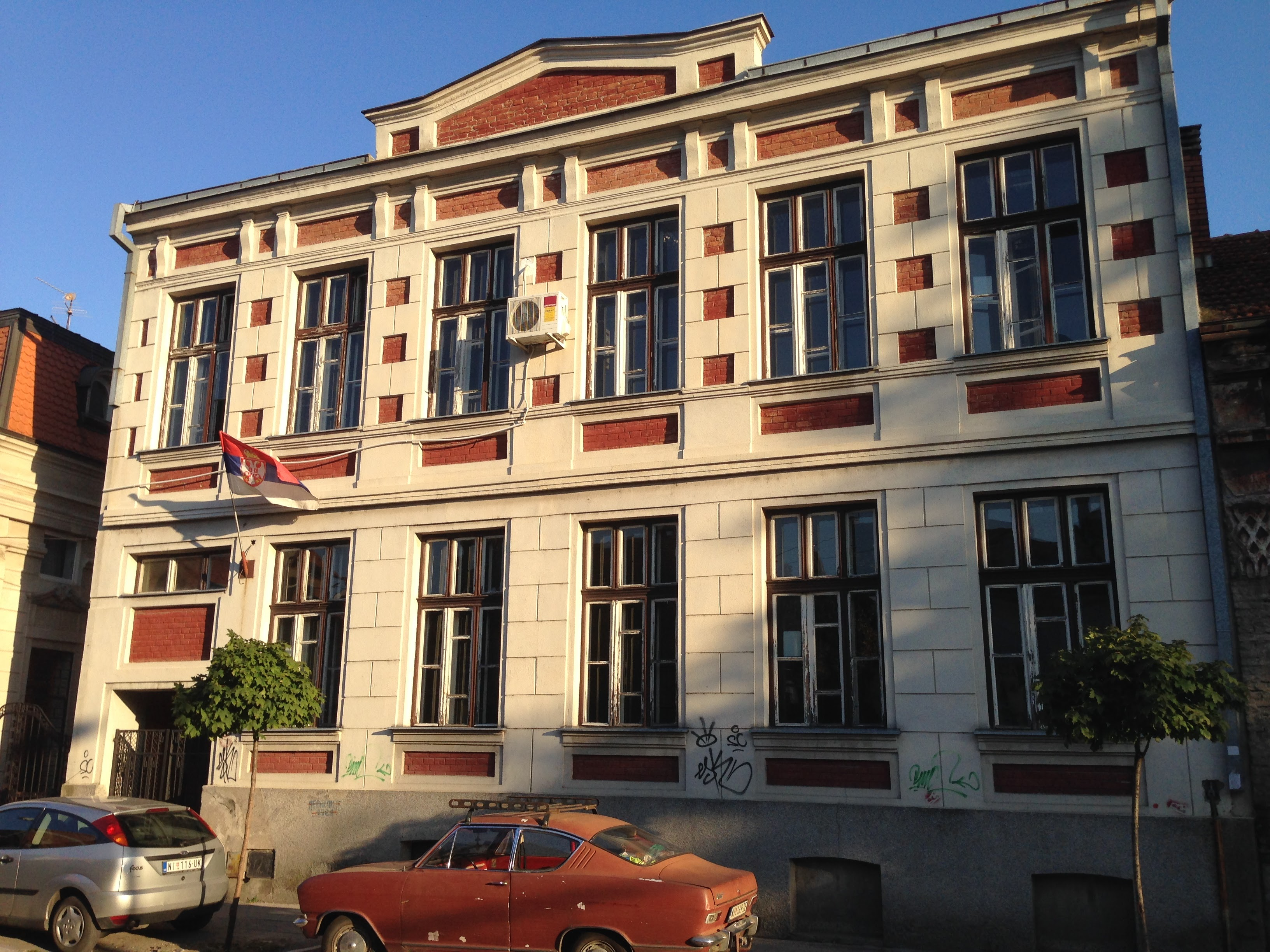 Women's Vocational School in Nis, 2015.